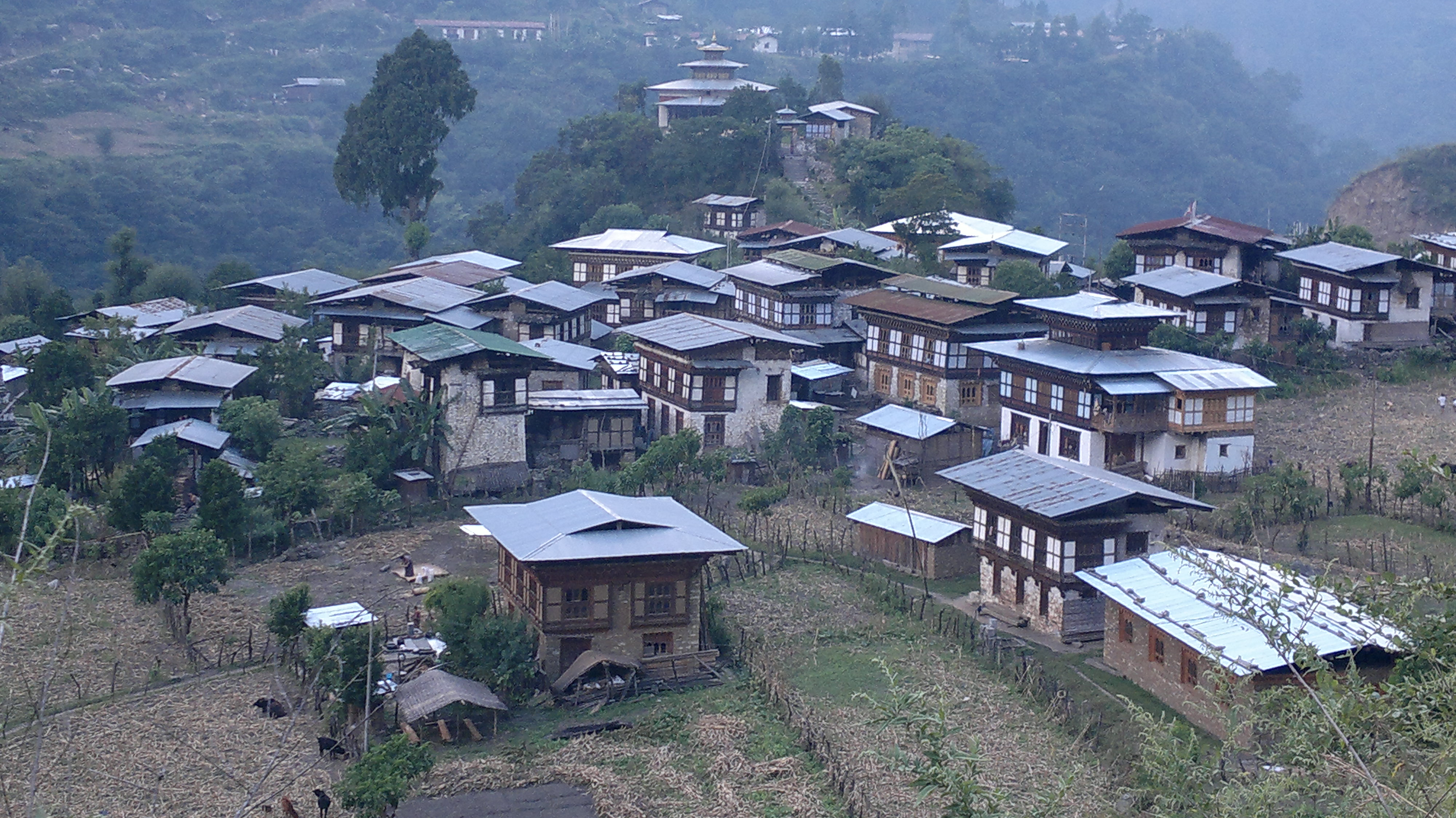 Khoam, a village in Lhuntse known for weaving kishu Thara